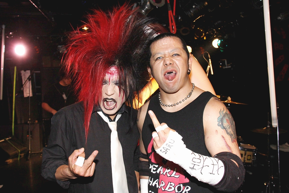 Shizuki from Anti Feminism (left) and professional wrestler Jun Kasai (right) on June 3, 2009 at an Anti Feminism's Rock-May-Kan Live in Meguro, Tokyo.